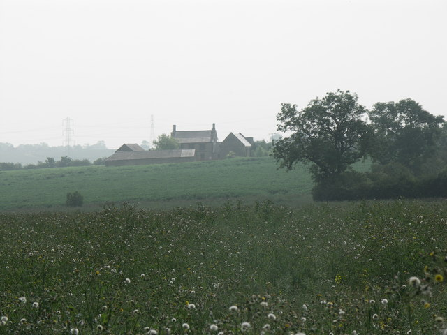 Moorfield Lodge across thistles and rape, the site of the deserted village of Wythmail in Northamptonshire, England